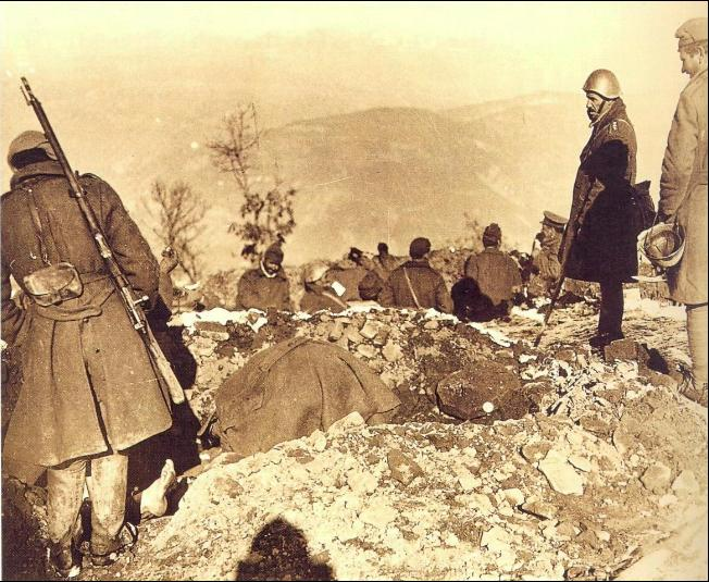 Contstruction of fortifications in Eleas-Kalama sector (Epirus-Greece), March 1939, before the outbreak of the Greco-Italian War (1940-1941)